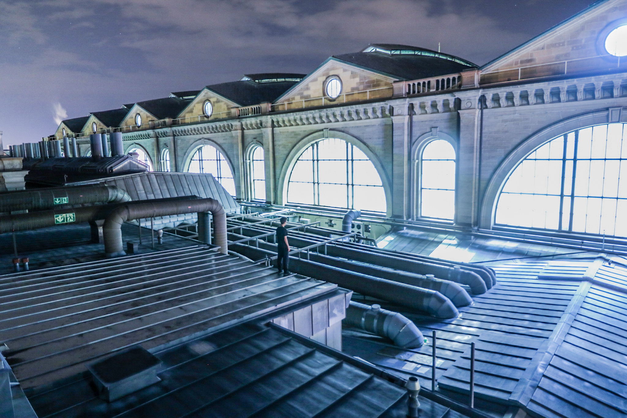 A rooftopper on the roof of the main train station of Zurich, Switzerland. You can see the big windows of the main hall.